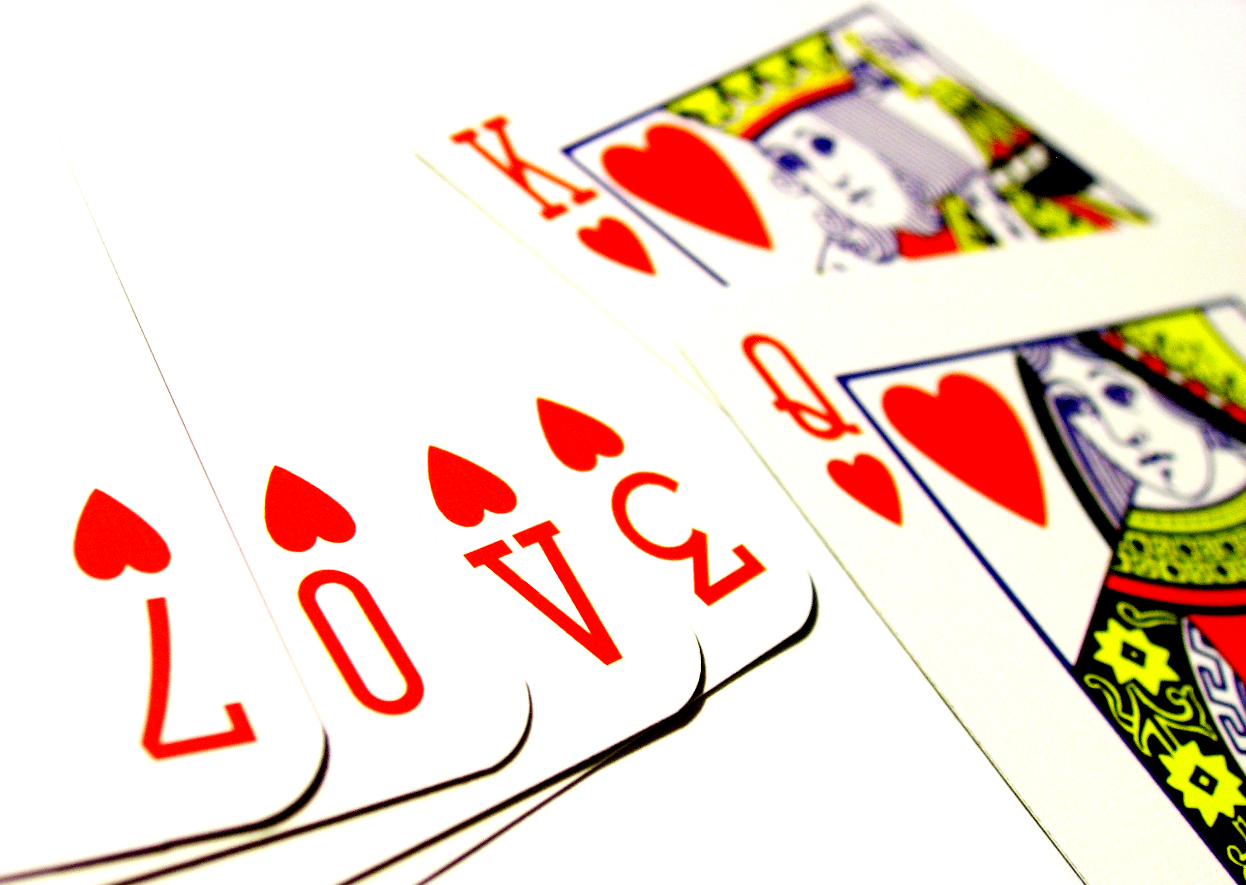 Playing cards.